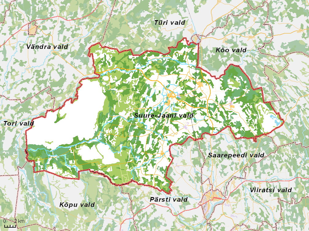 Map of municipality in Estonia